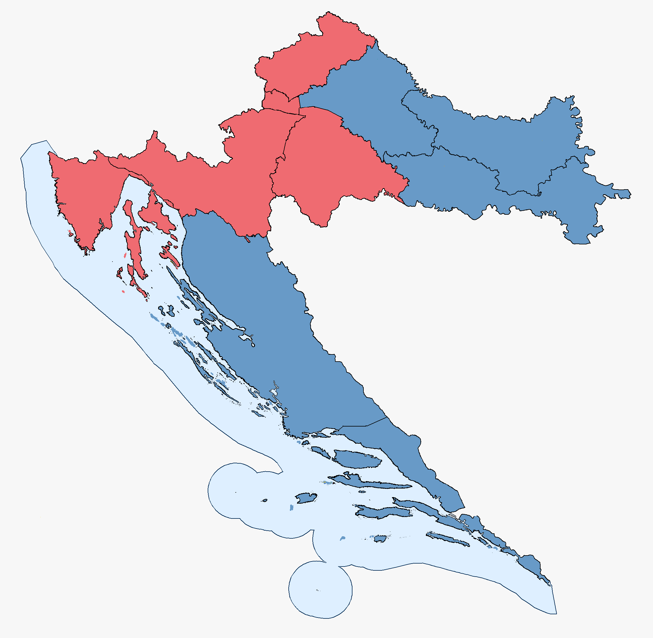 2015 election results for the Croatian Parliament, based on the majority of votes in each electoral district of Croatia.